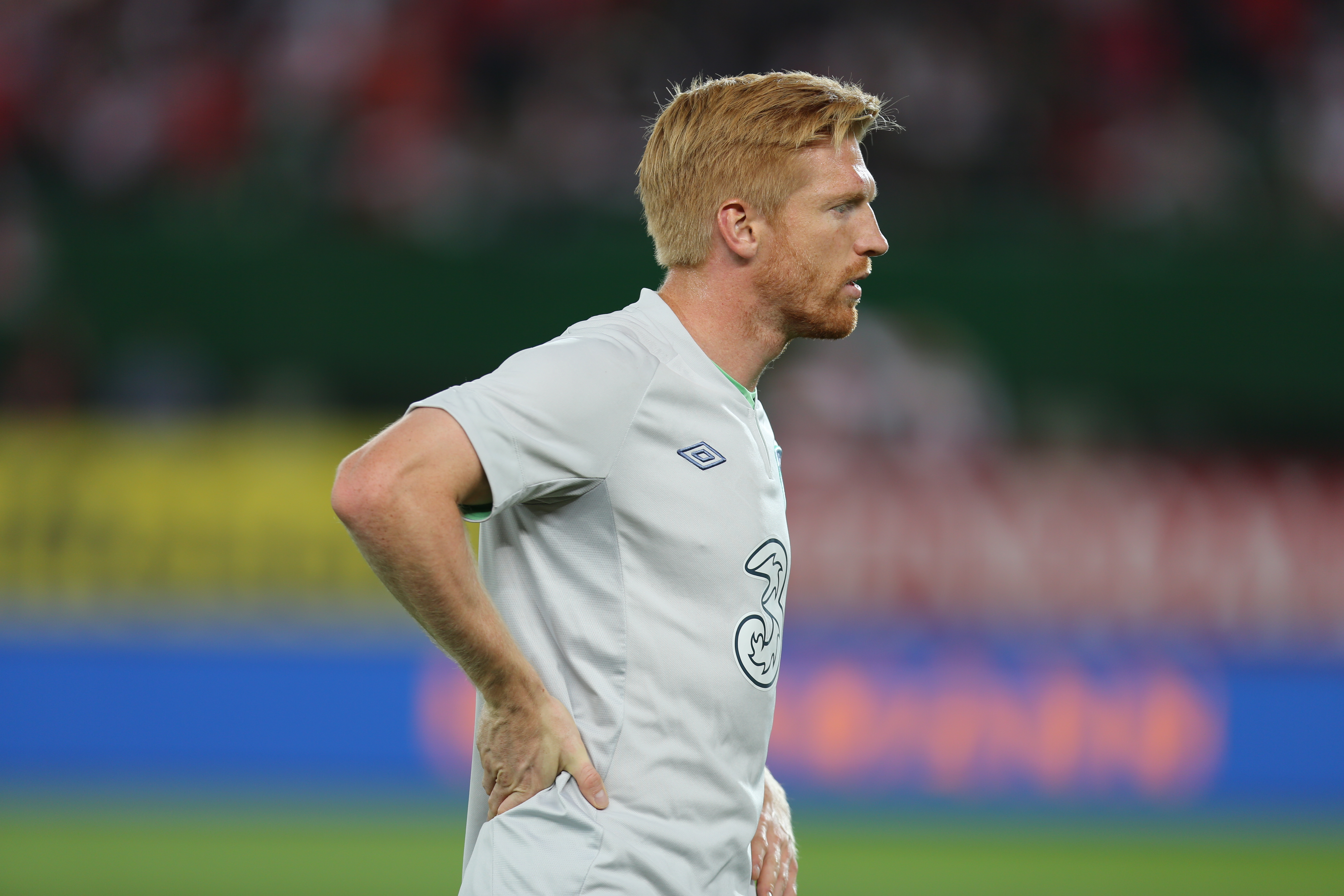 2014 FIFA World Cup qualification (UEFA), Group C: Republic of Ireland national football team at 10. September 2013 before the match against the Austria national football team (0:1) in the Ernst-Happel-Stadion in Vienna. Here:Paul McShane, Irish defender. The making of this work was supported by Wikimedia Austria. For other files made with the support of Wikimedia Austria, please see the category Supported by Wikimedia Österreich.